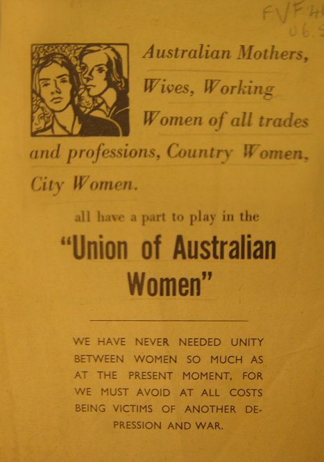 Flyer from Newmarket, no date, promoting the UAW as welcoming of all women. U6.55, FVF440, Fryer Library, University of Queensland.